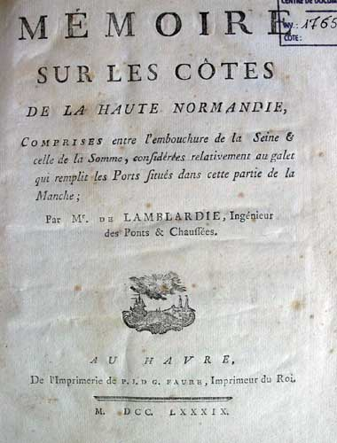 Memoire about the coasts of Normandy, 1789, by Jacques-Élie Lamblardie (1747-1797), French engineer, creator of the École polytechnique.